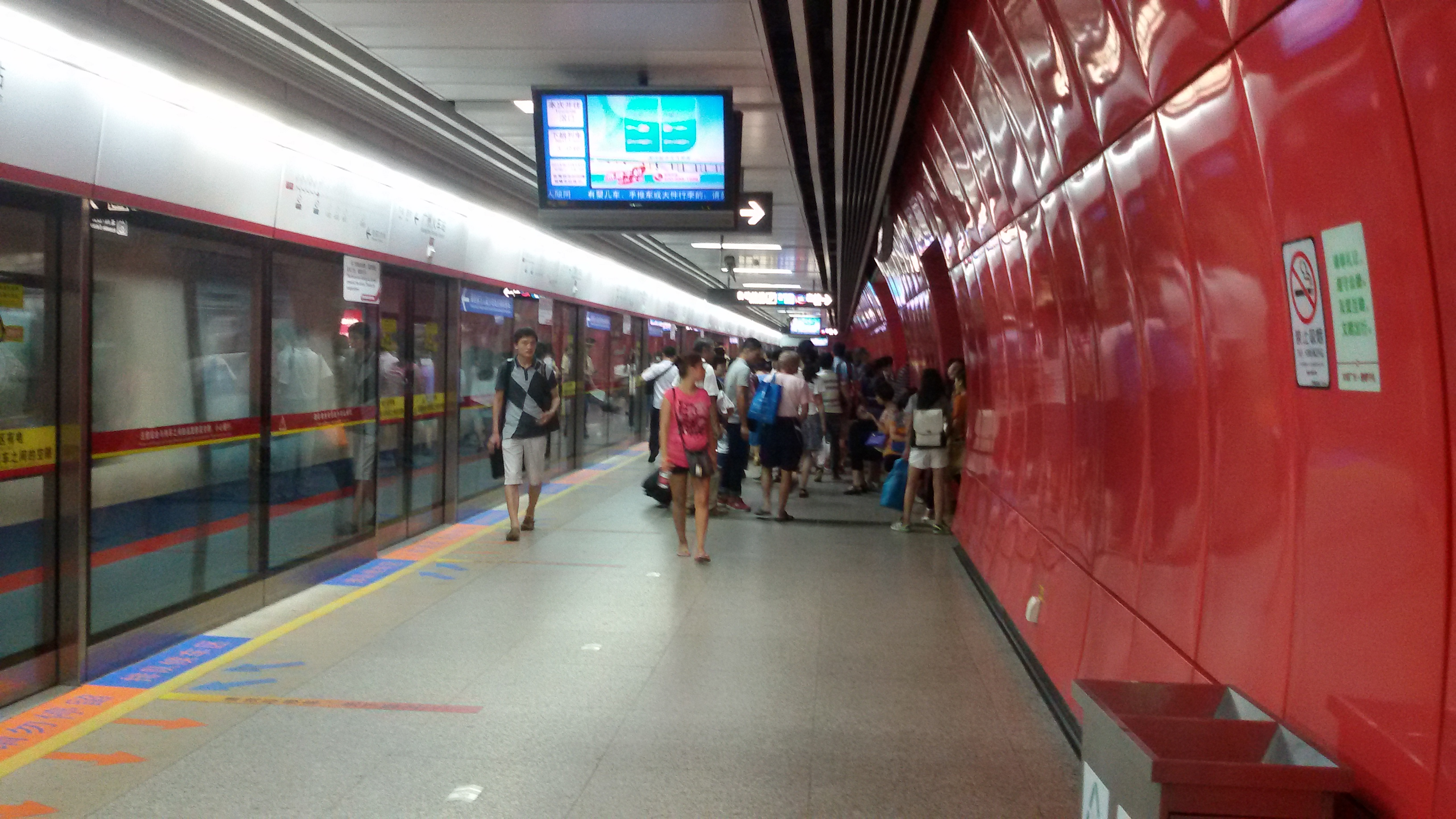 Platform for Line 5 at Guangzhou Railway Station in Guangzhou Metro.